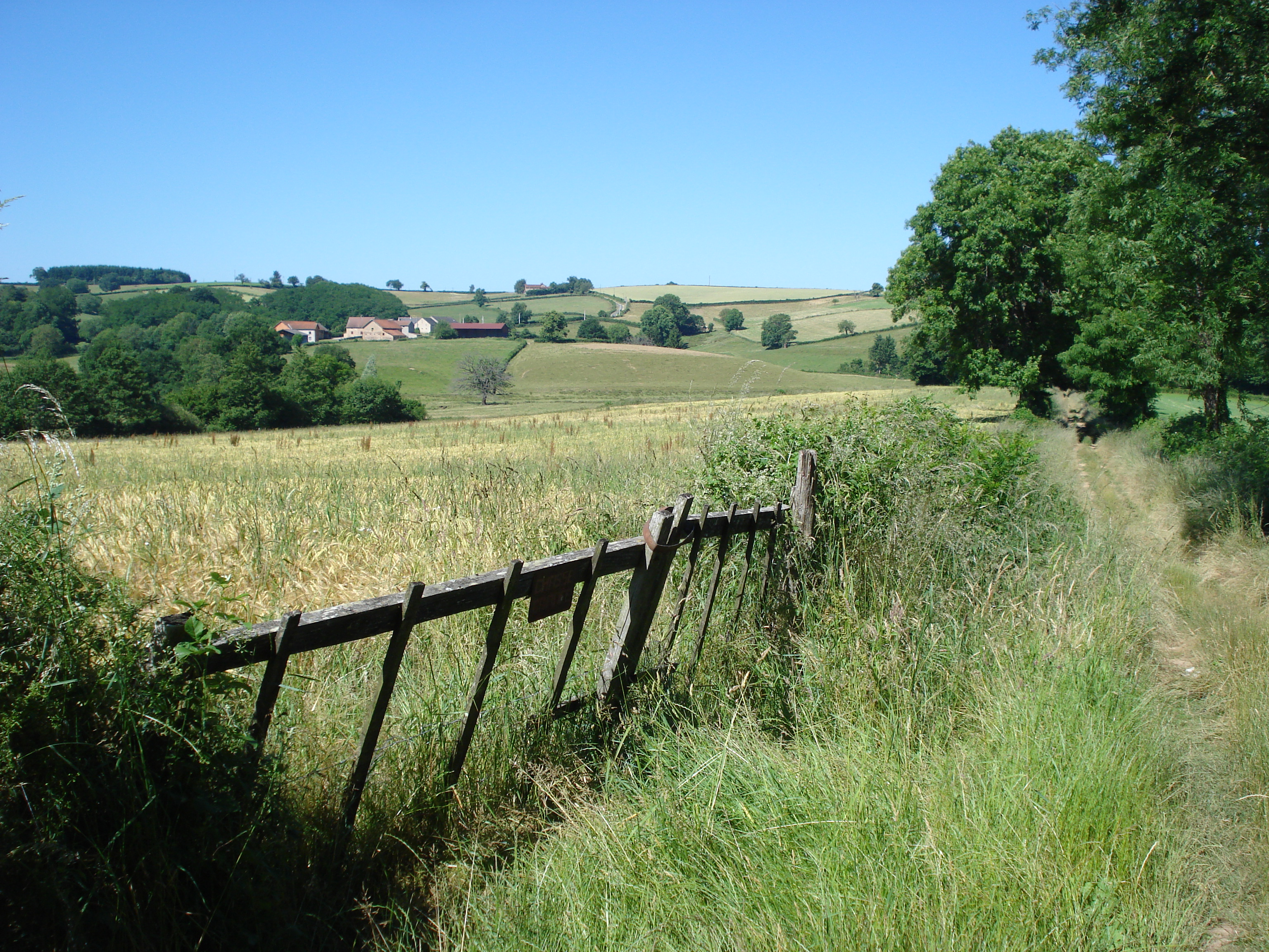 Paysage au sud d'Issy-l'Évêque (Saone-et-Loire, Fr).